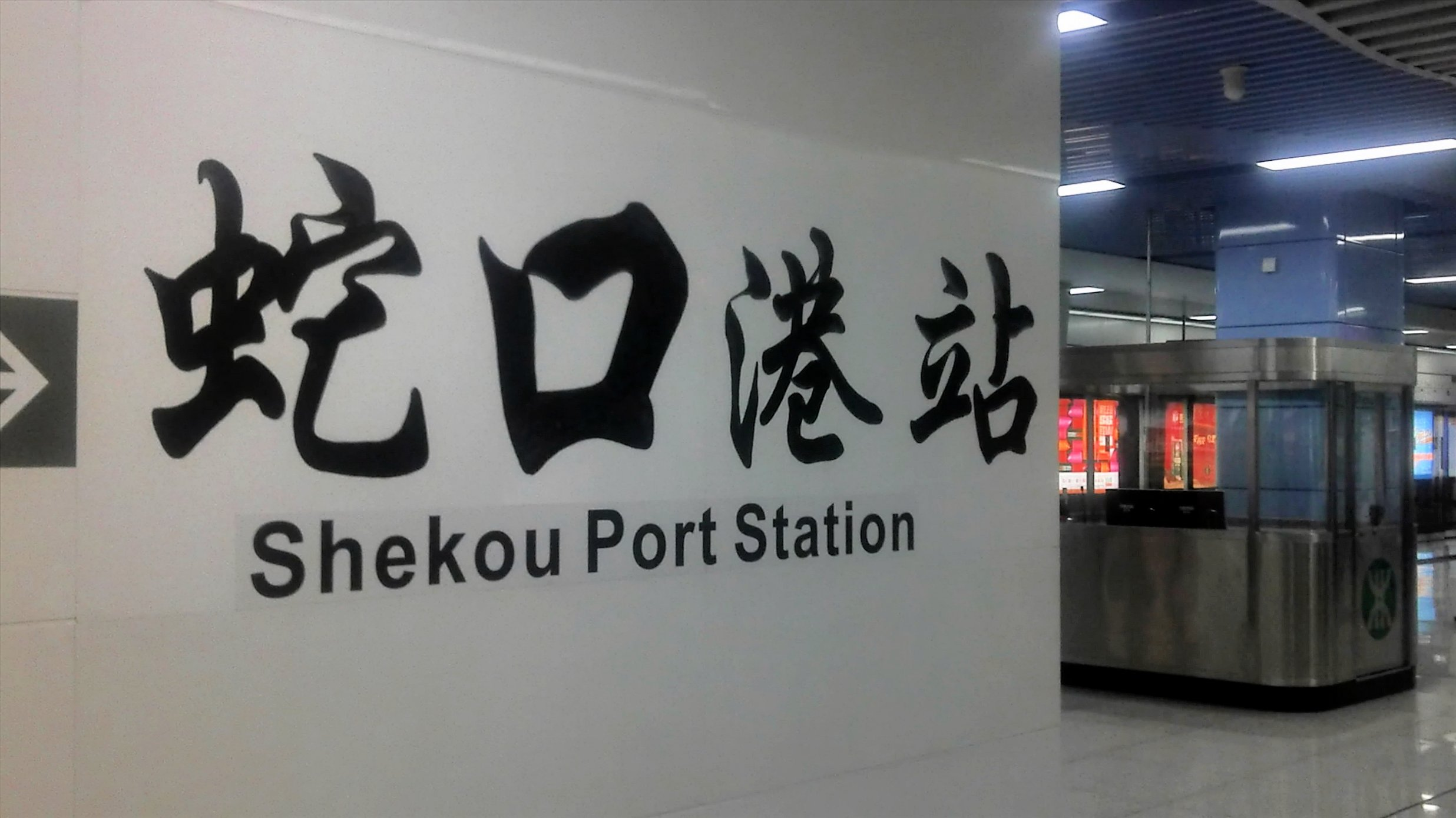 This photo was taken as Oct 22, 2011.